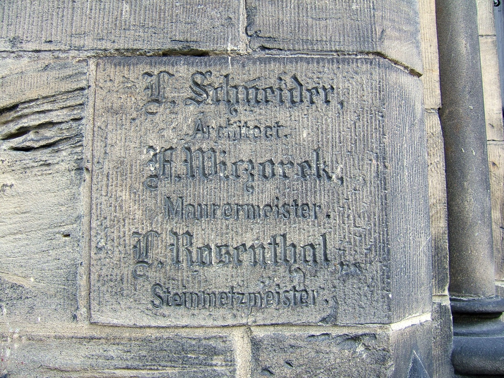 Cornerstone of Holy Trinity Church from 1902 in Kochłowice.